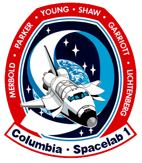 This is the official insignia for STS-9, the major payload of which is Spacelab 1, depicted in the cargo bay of the Columbia. The nine stars and the path of the orbiter tell the flight's numerical designation in the Space Transportation System's mission sequence. Astronaut John N. Young is crew commander, Brewster N. Shaw, Jr., pilot. NASA Astronauts Owen K. Garriott and Robert A. Parker are mission specialists. Byron K. Lichtenberg of the Massachusetts Institute of Technology and Ulf Merbold of the Republic of West Germany are the Spacelab 1 payload specialists. Launch has been set for late 1983. Merbold is a physicist representing the European Space Agency (ESA).